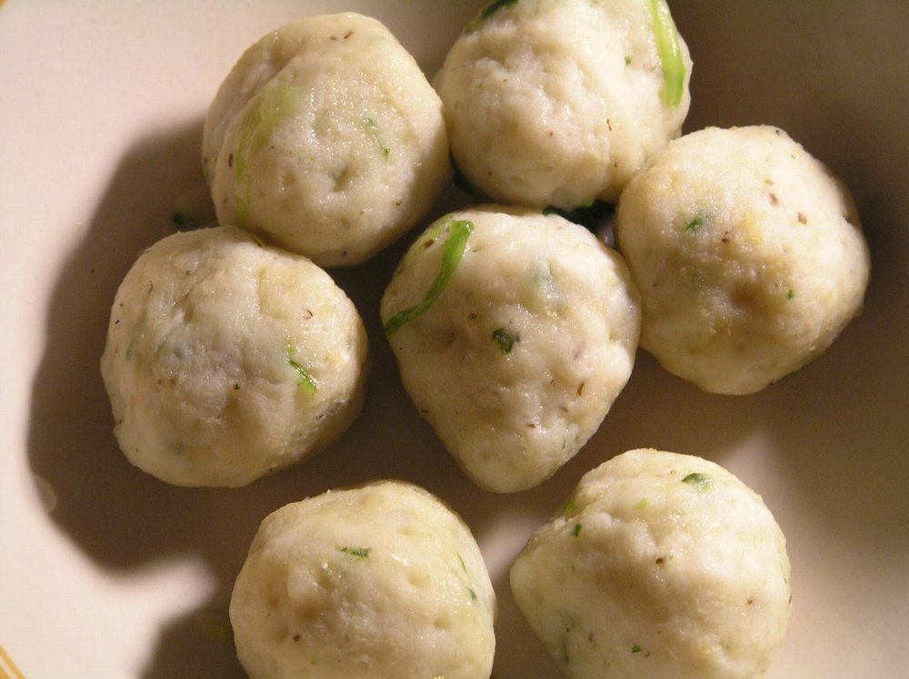 Dace fishball